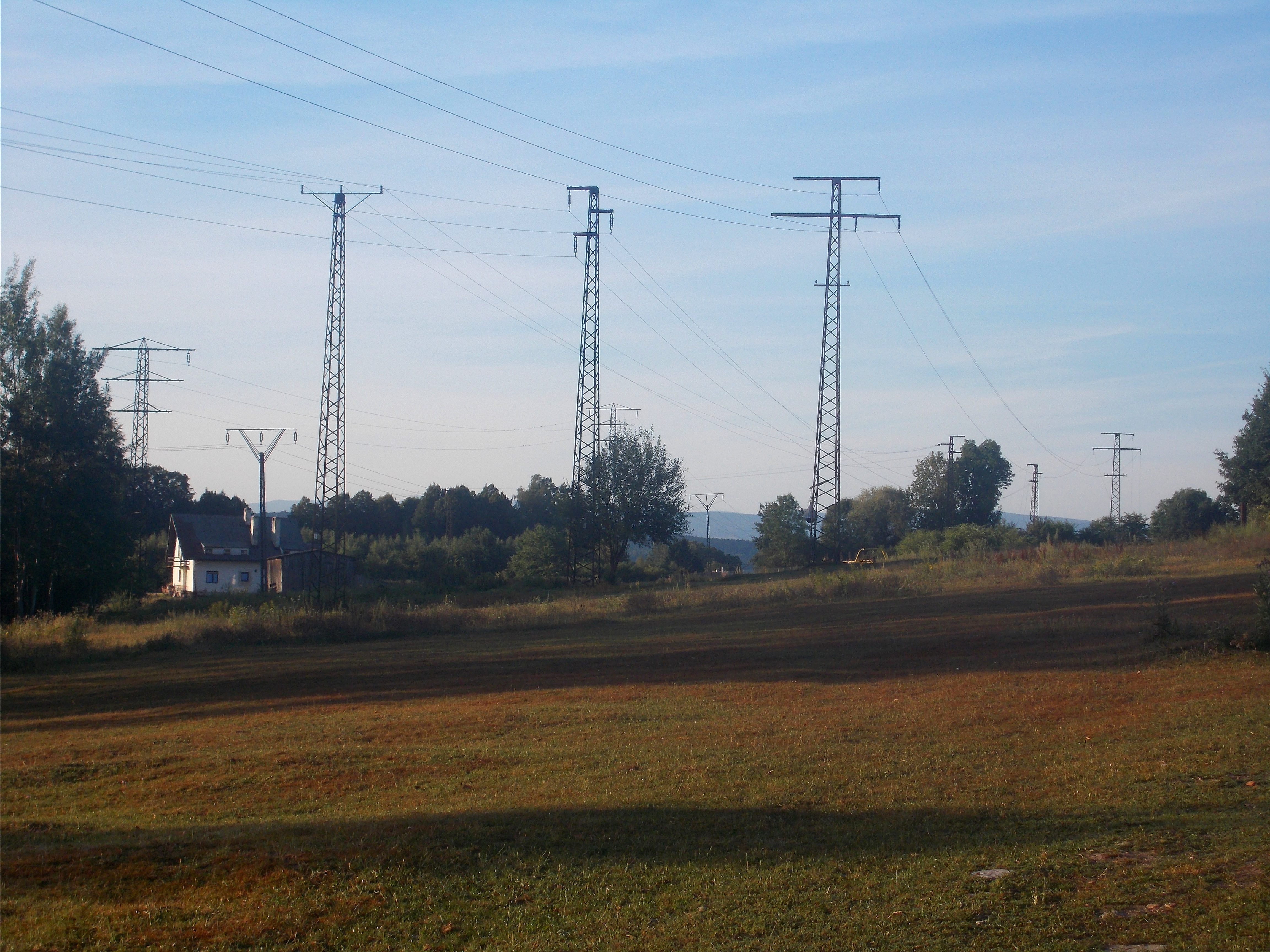 Old medium-voltage towers near Luban, Poland